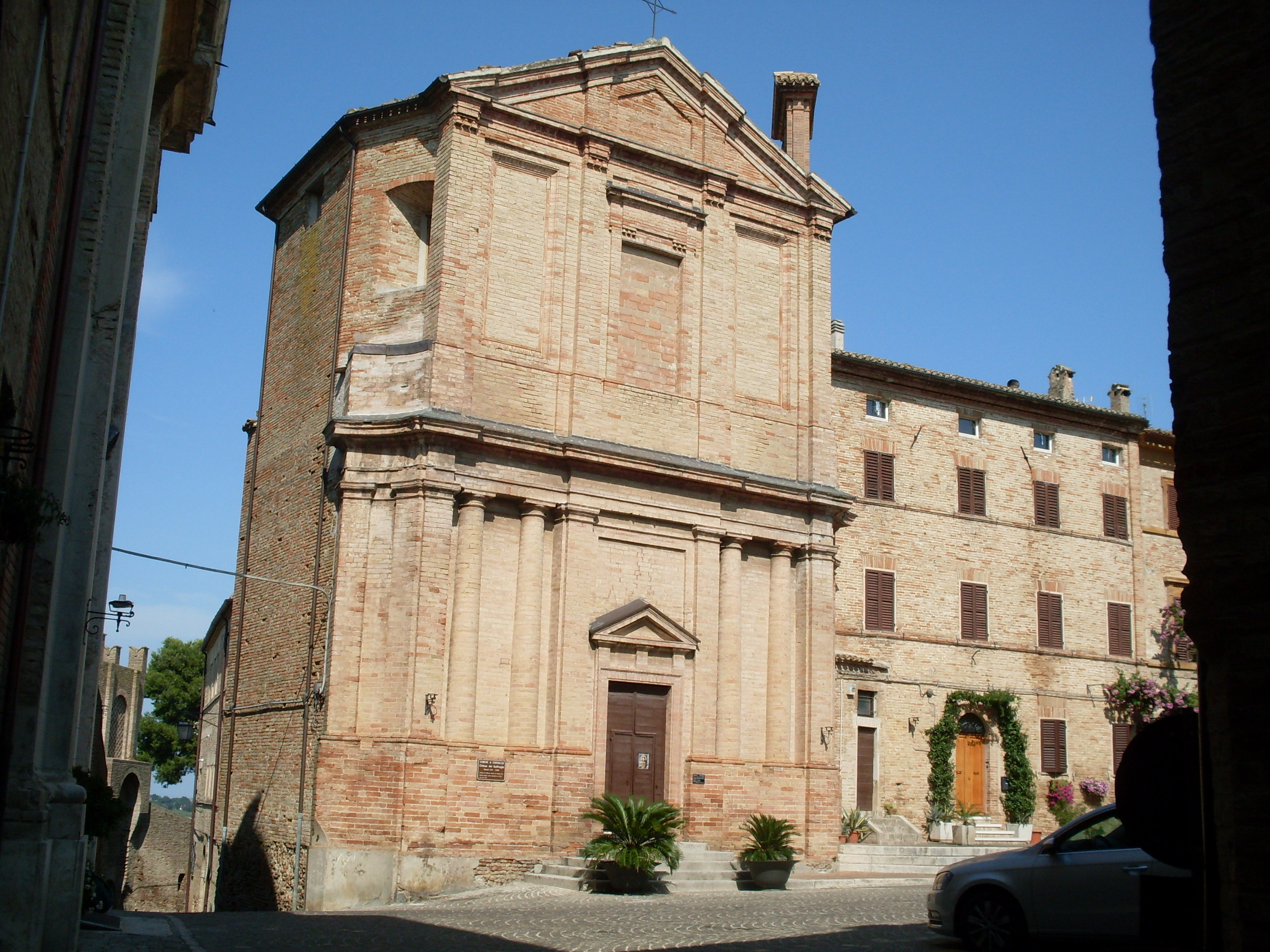 Chiesa del Suffragio Corinaldo